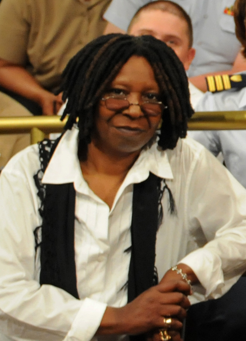 NEW YORK (May 27, 2010) Whoopi Goldberg, left, Elisabeth Hasselbeck and Sherri Shephard, hosts of the ABC talk show, The View, pose with Sailors, Marines, and Coast Guardsmen attending a live taping of the show during Fleet Week New York 2010. Approximately 3,000 Sailors, Marines and Coast Guardsmen are participating in the 23rd Fleet Week New York, which will take place May 26-June 2. (U.S. Navy photo by Mass Communication Specialist 3rd Class Ash Severe/Released)